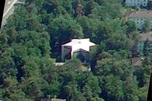 The synagogue, dedicated in 1971, has the outline of a Star of David.